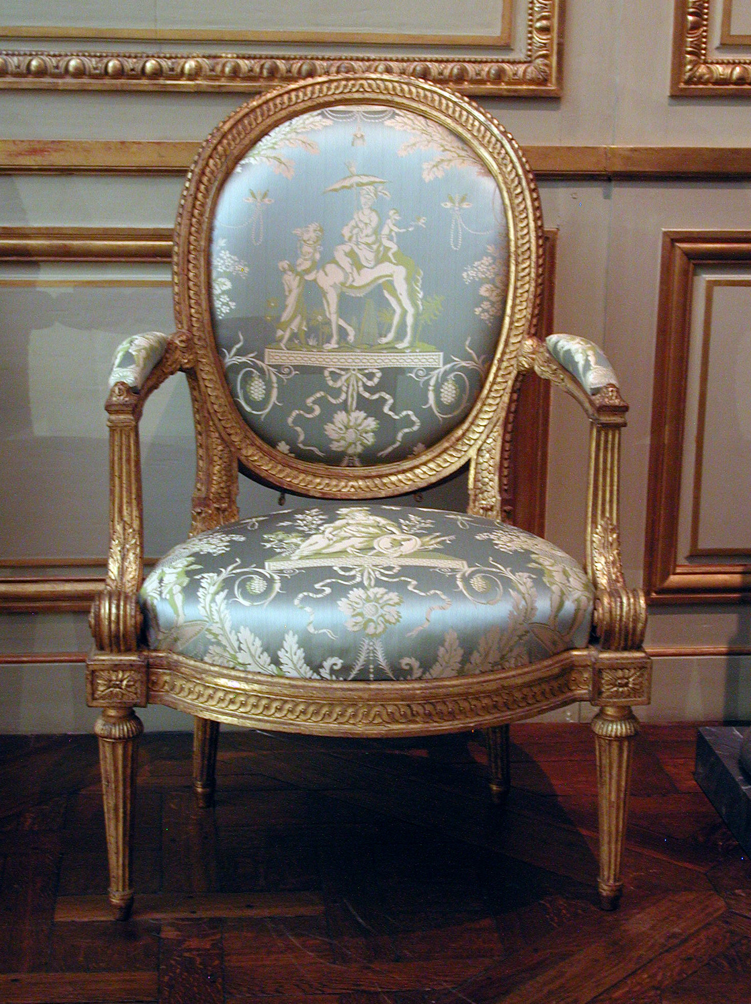 French, Paris; Armchair; Woodwork-Furniture